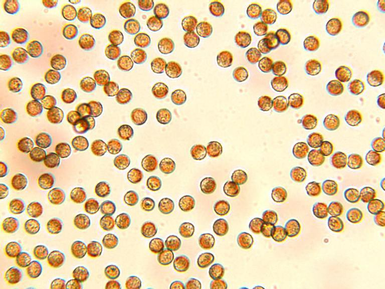 Rust (Sign) Puccinia hordei G.H. Otth Image location: Louisiana, United States